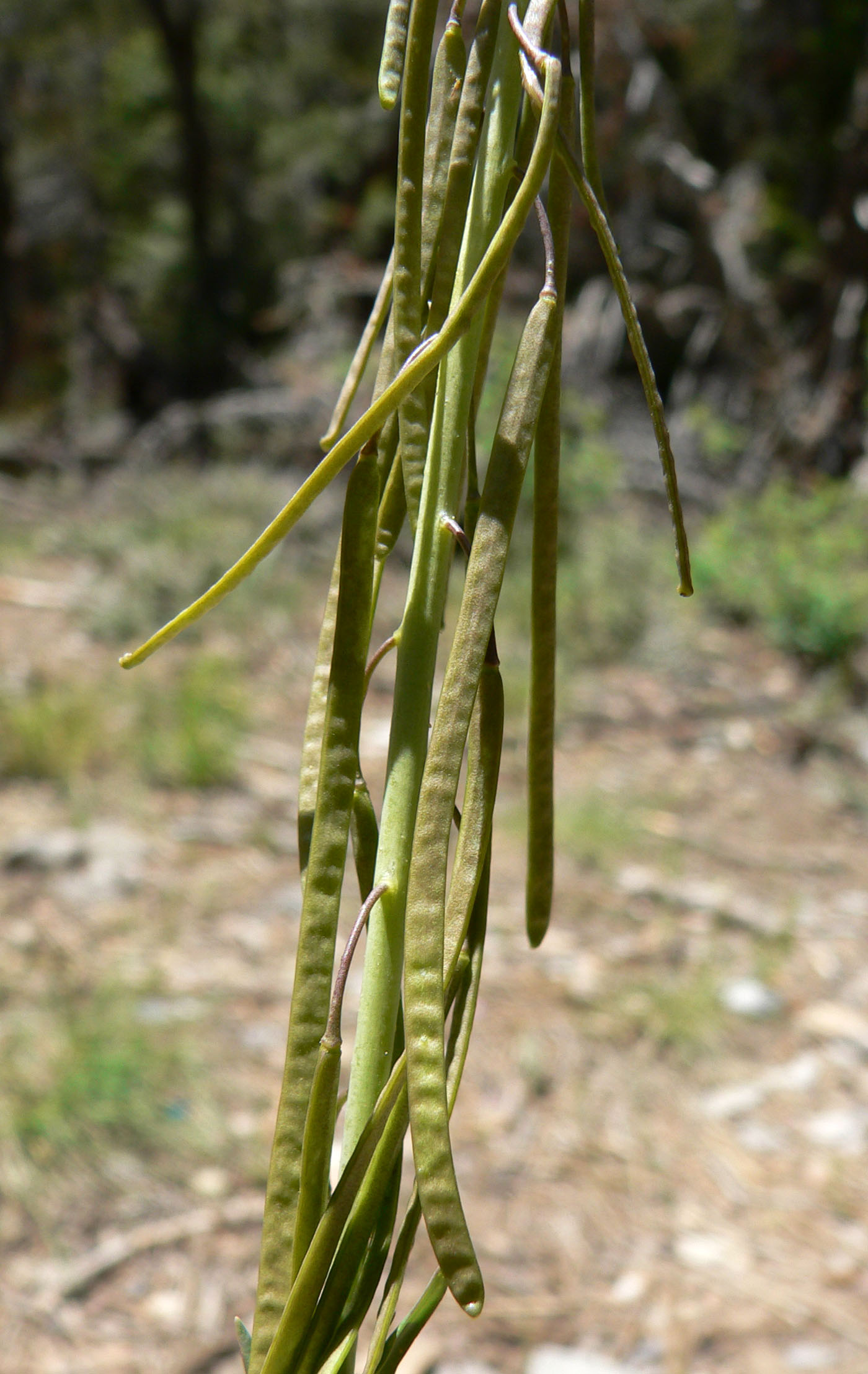 Boechera holboellii about 100 m west of the Cathedral Rock/Little Falls trailhead, Kyle Canyon, Spring Mountains, southern Nevada (elev. about 2300 m)